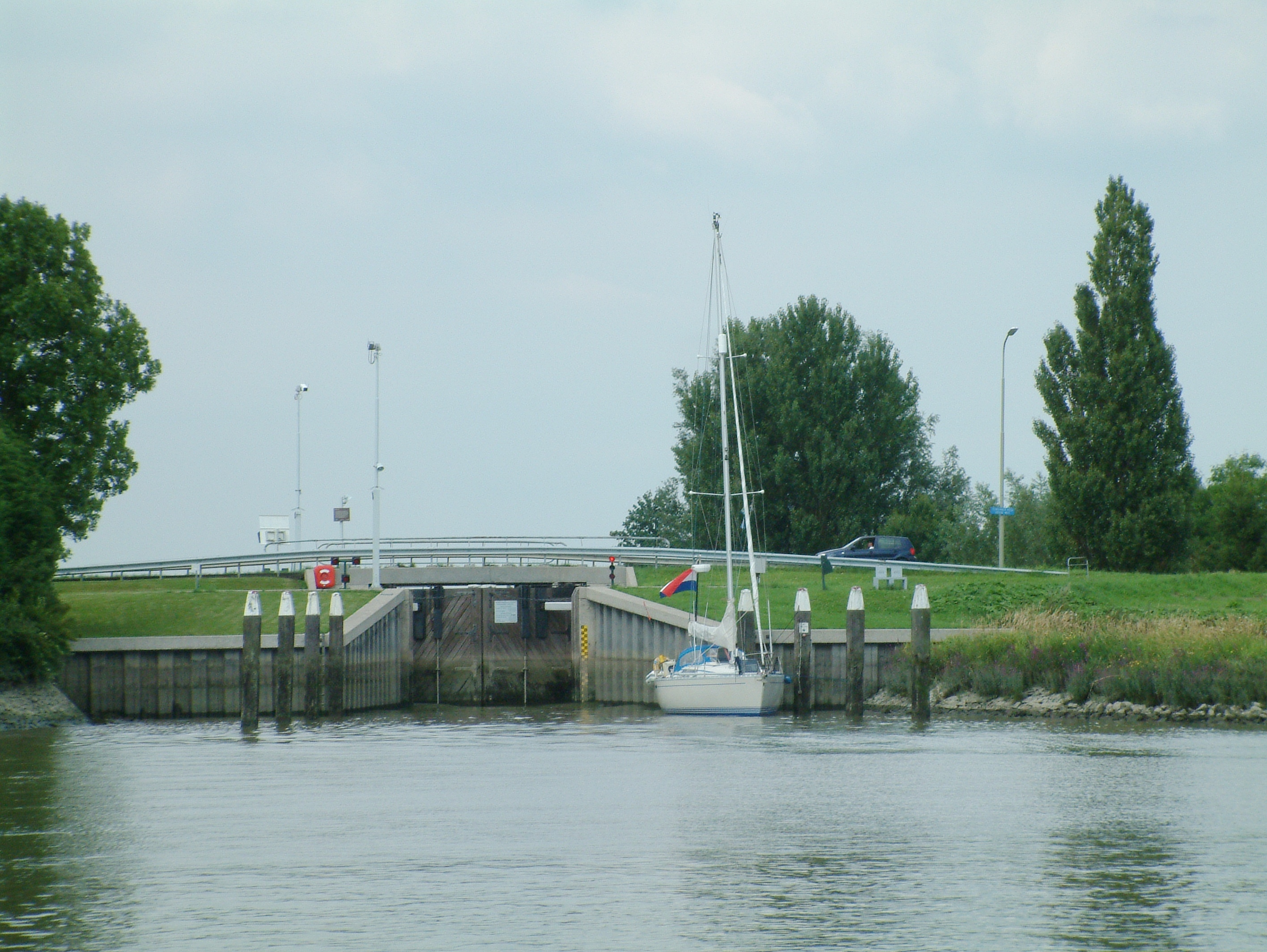 Snellesluis Moordrecht, Hollandsche IJssel side